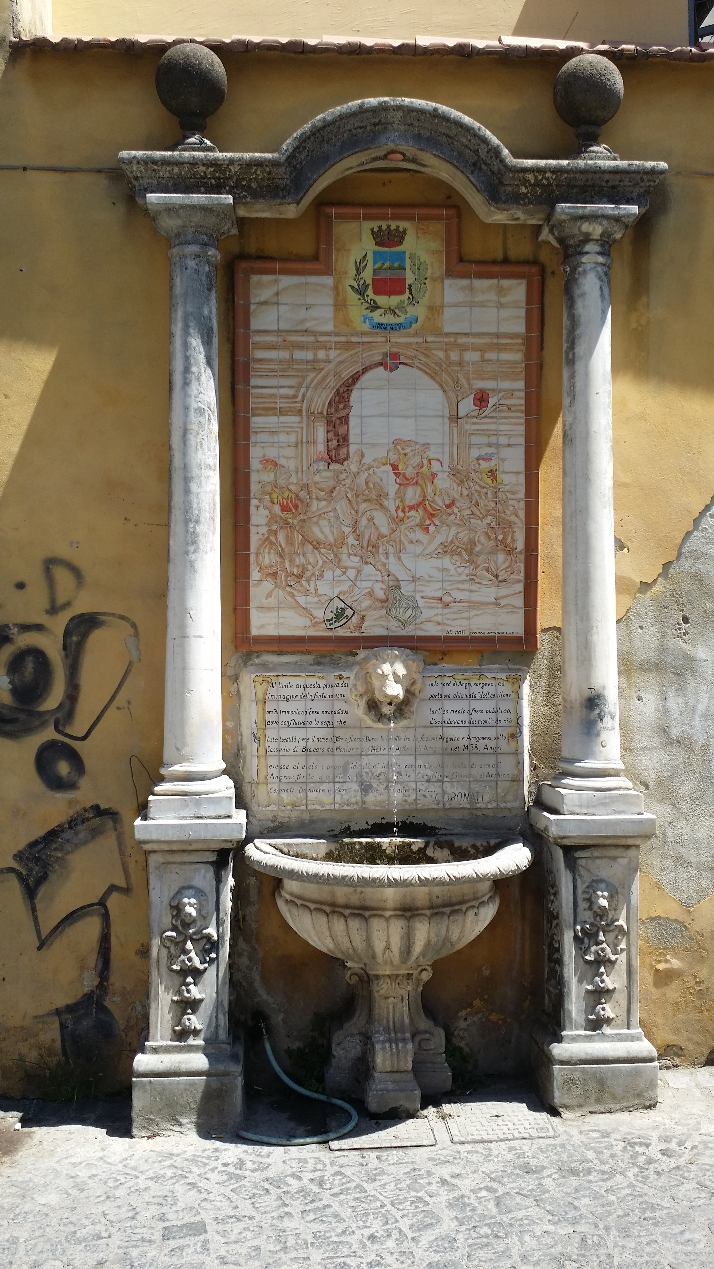 Fountain in Piazza Sorrento - formerly the Coronati-Angri borough